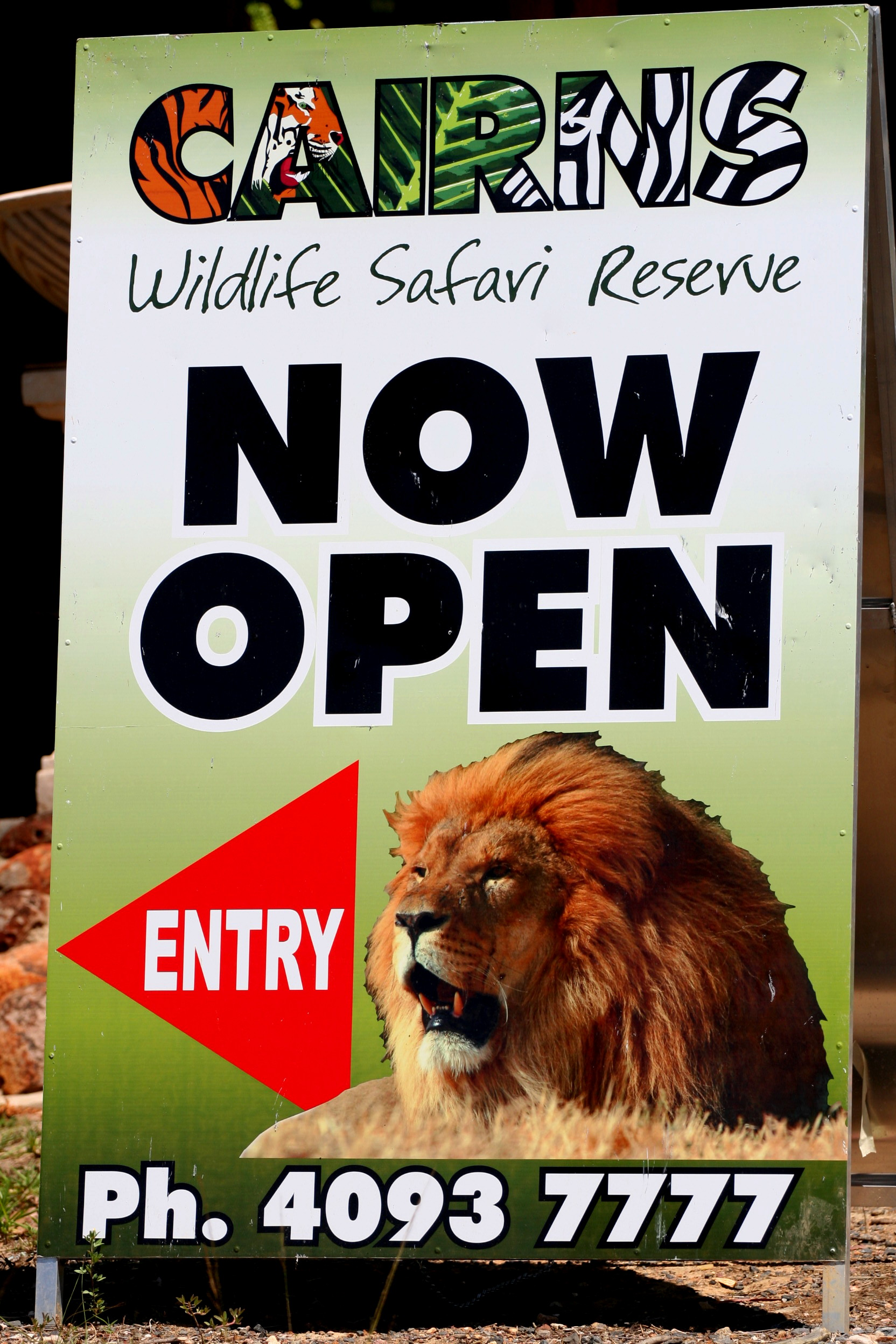 Entrance sign to Cairn Wildlife Safari Reserve